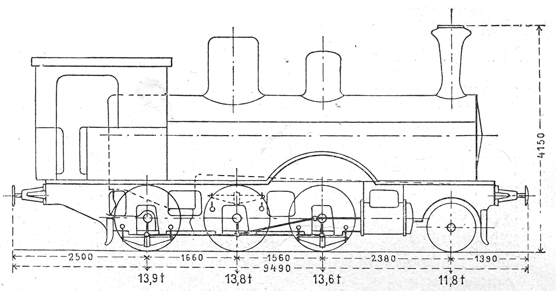 Steam locomotive Württemberg Fz.